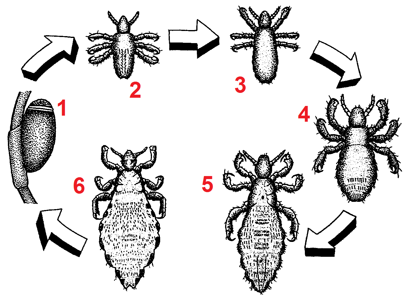 This illustration depicts the life cycle of a “sucking louse”, Pediculus humanus var. corporis, and the morphologic changes that take place at each successive developmental plateau reached. All developmental stages of the louse’s life cycle are passed while it resides as an ectoparasite on its mammalian host. The stages include the egg, the first nymph, second nymph, and third nymph, and the adult male and female.